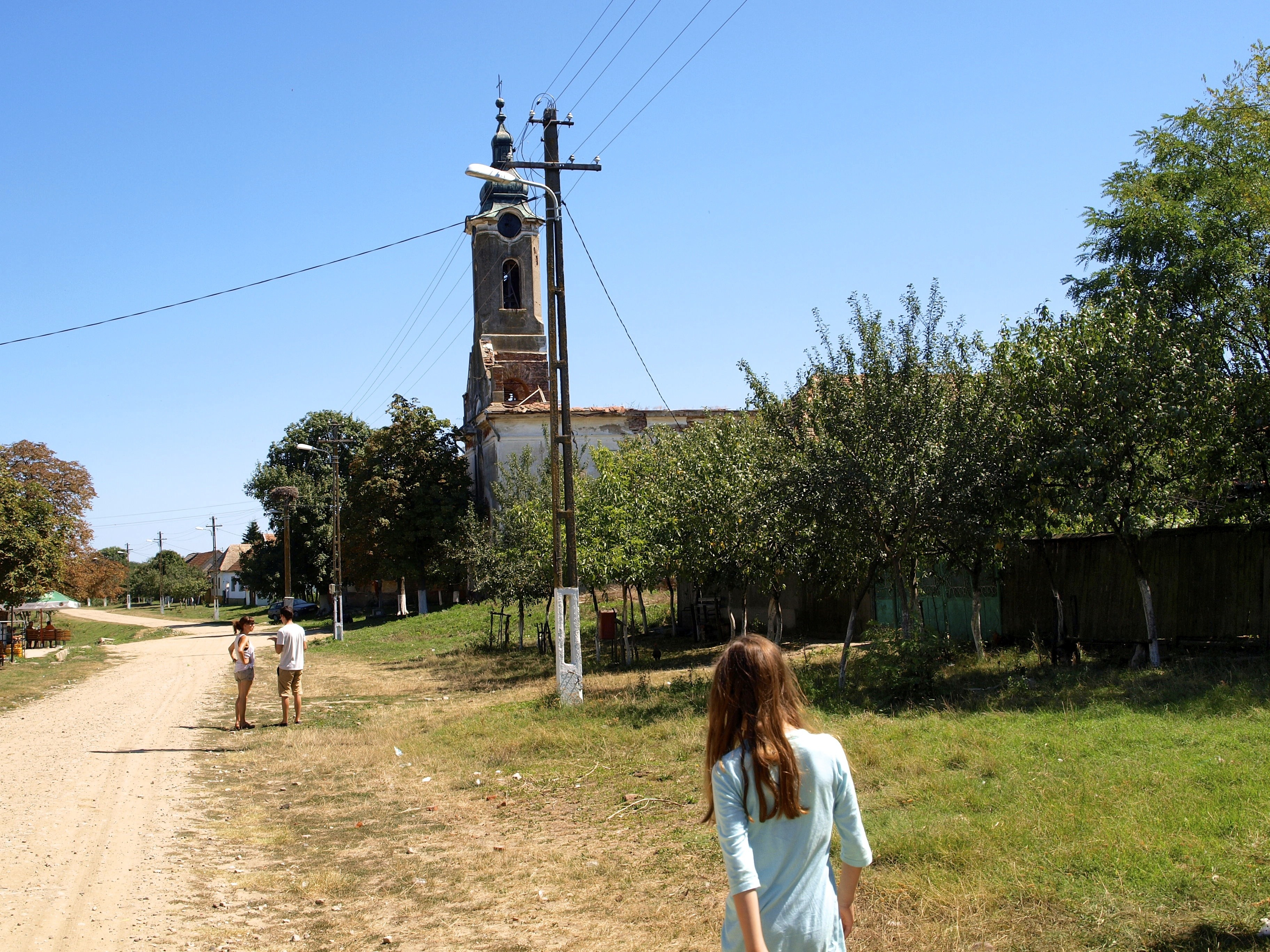 the Lutheran church in Kleinschemlak/Șemlacu Mic, Romania, now in a dilapidated state